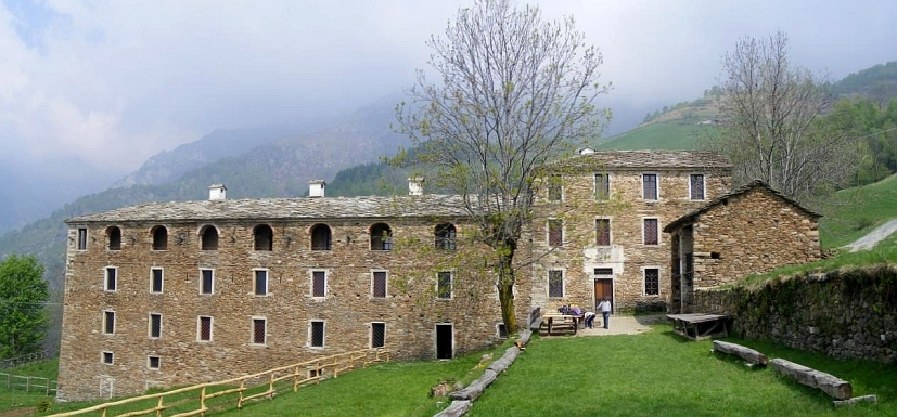 Trappa di Sordevolo (Sordevolo, BI, Italy)